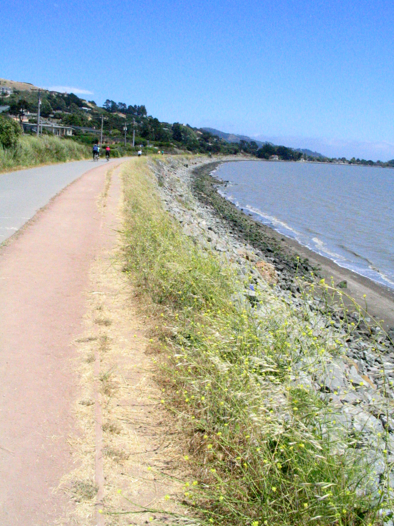 Path for cyclists and hikers along Bay, in Tiburon.